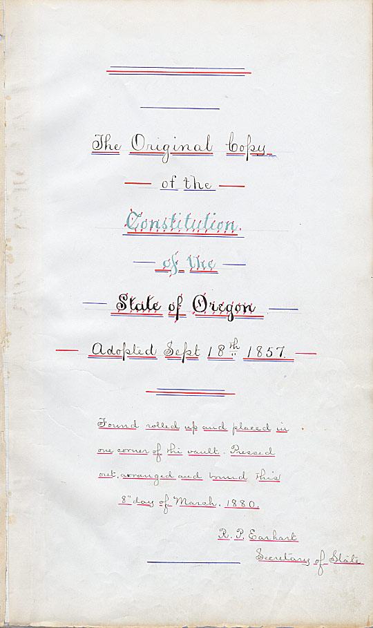 Title page of the original Oregon Constitution.